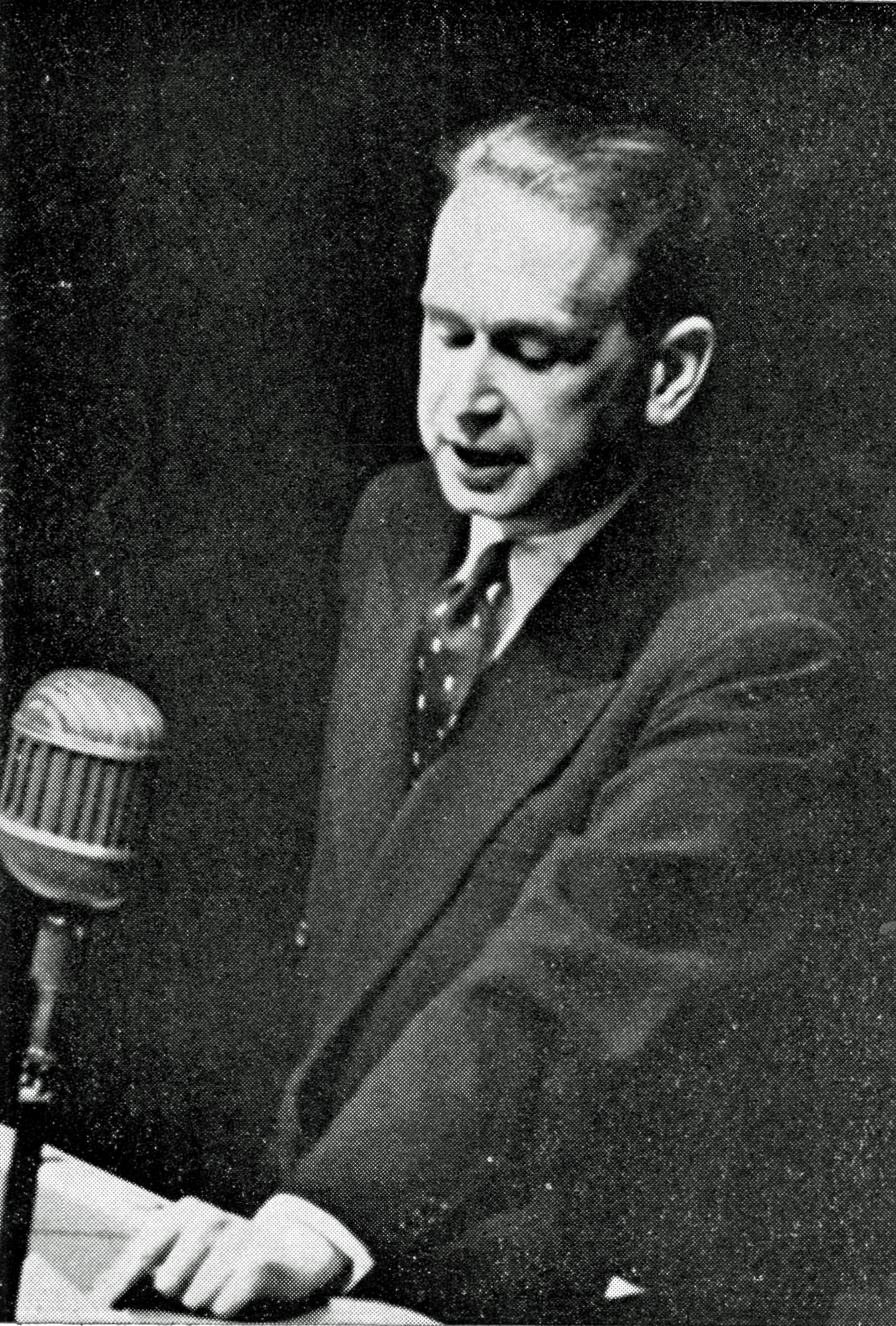 Dag Hammarskjöld at the General Assembly of the United Nations.